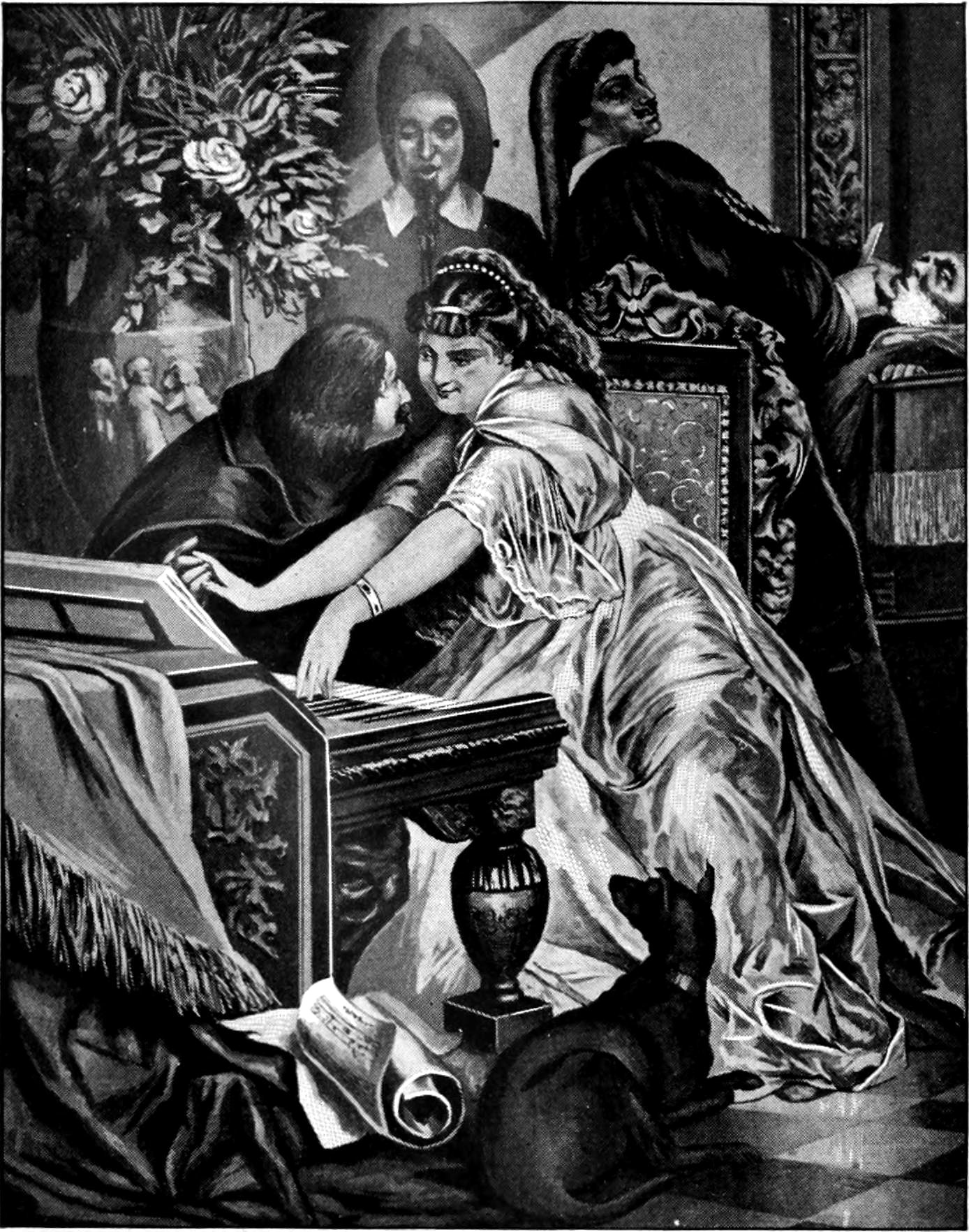 Il barbiere di Siviglia - The count gives Rosina a music lesson Title: The Victrola book of the opera : stories of one hundred and twenty operas with seven-hundred illustrations and descriptions of twelve-hundred Victor opera records Year: 1917 (1910s) Authors: Victor Talking Machine Company Rous, Samuel Holland Subjects: Operas Publisher: Camden, N.J. : Victor Talking Machine Co. Text Appearing Before Image: y. At this moment all are petrified at the entrance of Don Basilio, whois supposed to be confined to his bed. Figaro sees that quick action is necessary and askshim what he means by coming out with such a fever. Fever? says the astonished musicmaster. A raging fever, exclaims Figaro, feeling his pulse. You need medicine, saysthe Count, meaningly, and slips a fat purse in his hand. Don Basilio partially comprehendsthe situation, looks at the purse and departs. The shaving is renewed, and Rosina and the Count pretend to continue the lesson, butare really planning the elopement. Bartolo tries to watch them, but Figaro manages to getsoap in the Doctors eye at each of his efforts to rise. He finally jumps up and denouncesthe Count as an impostor. The three conspirators laugh at him, and go out, followed byBartolo, who is purple with rage. Bertha, the housekeeper, enters, and in her air, // vecchietto, complains that she can nolonger stand the turmoil, quarreling and scolding in this house. Text Appearing After Image: THE COUNT GIVES ROSINA A MUSIC LESSON * Double-Faced Record—See page 38. 30 VICTROLA BOOK OF THE OPERA—BARBER OF SEVILLE